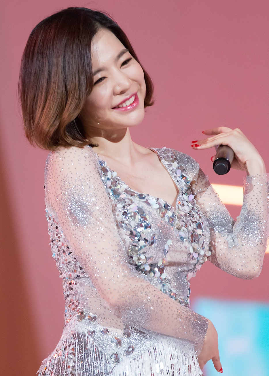 Sunny at Style Icon Asia on March 15, 2016.